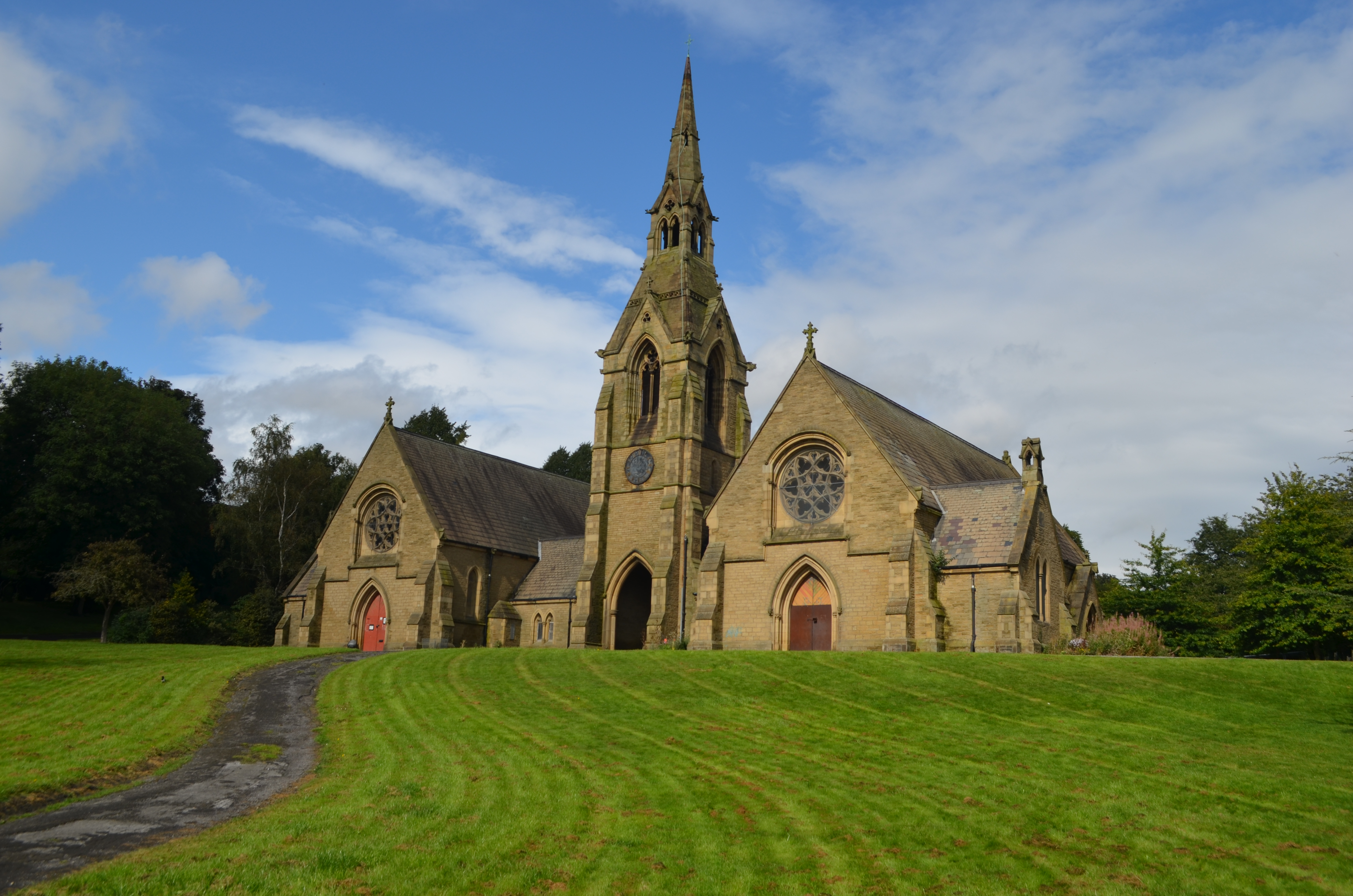 Cemetery Chapels At Burngreave Cemetery Wikidata has entry Q26539070 with data related to this item.